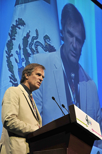 Daniel Nepstad, Keynote Address. Scenes from Forest Day 4, Cancún, Mexico.